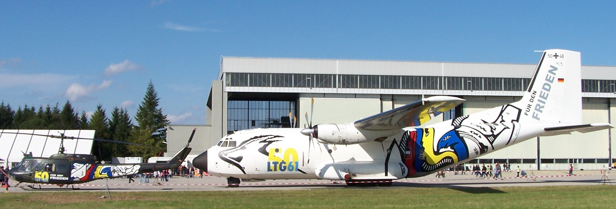 C-160 Transall on static display in Penzing